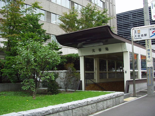 Ōyachi Station of Sapporo Municipal Subway. Ōyachi-Higashi, Atsubetsu ward, Sapporo, Hokkaidō prefecture, Japan. Front of the headquater building of Sapporo City Transportation Bureau.